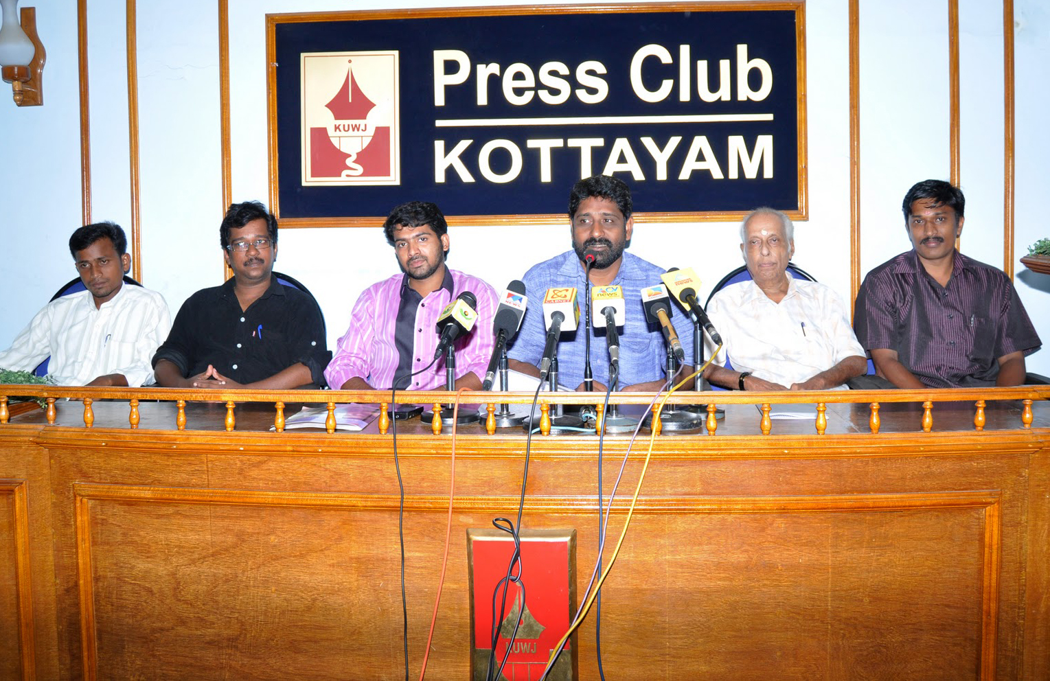 sathish announce the first mobile phone cinema in world